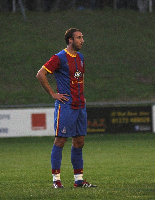 Glen Murray playing pre-season friendly 21st July 2012